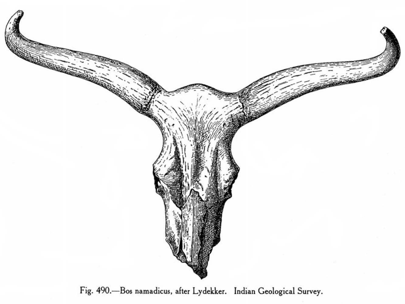 Raphael Pumpelly: Explorations in Turkestan : Expedition of 1904 : vol.2, p. 361